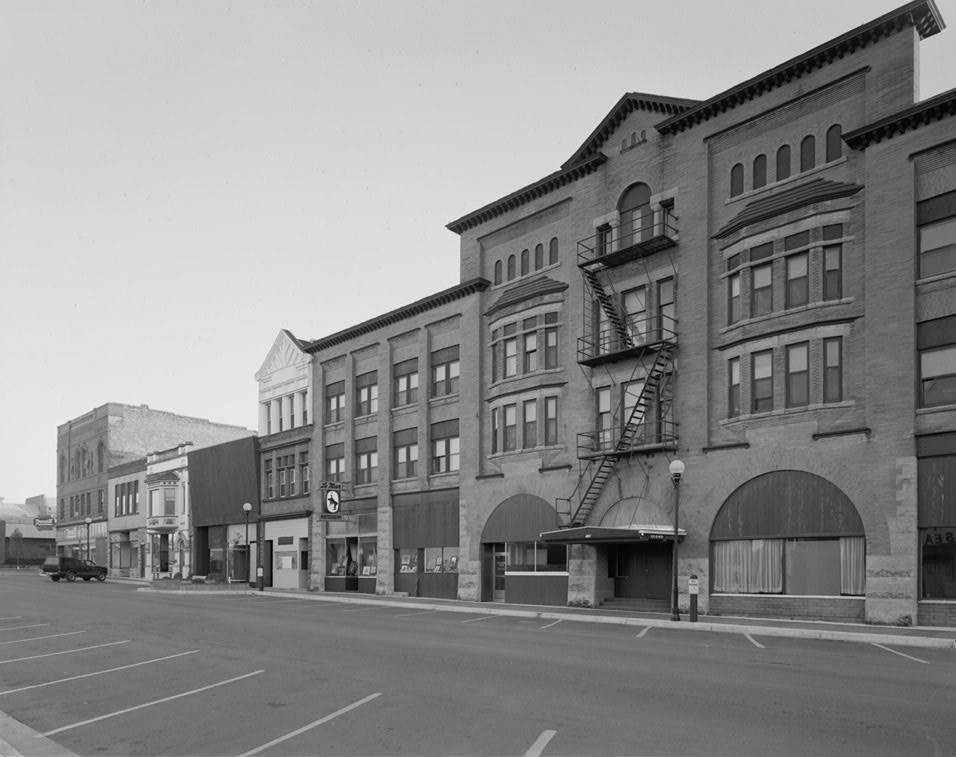 Buildings in the Crookston Commercial Historic District in central Crookston, Polk County, Minnesota, United States. The district reflects the city's early period of growth, which was prompted by agriculture and the railroad industry. It remains a large, and mostly intact, concentration of late nineteenth- and early twentieth-century commercial structures and is listed on the National Register of Historic Places.